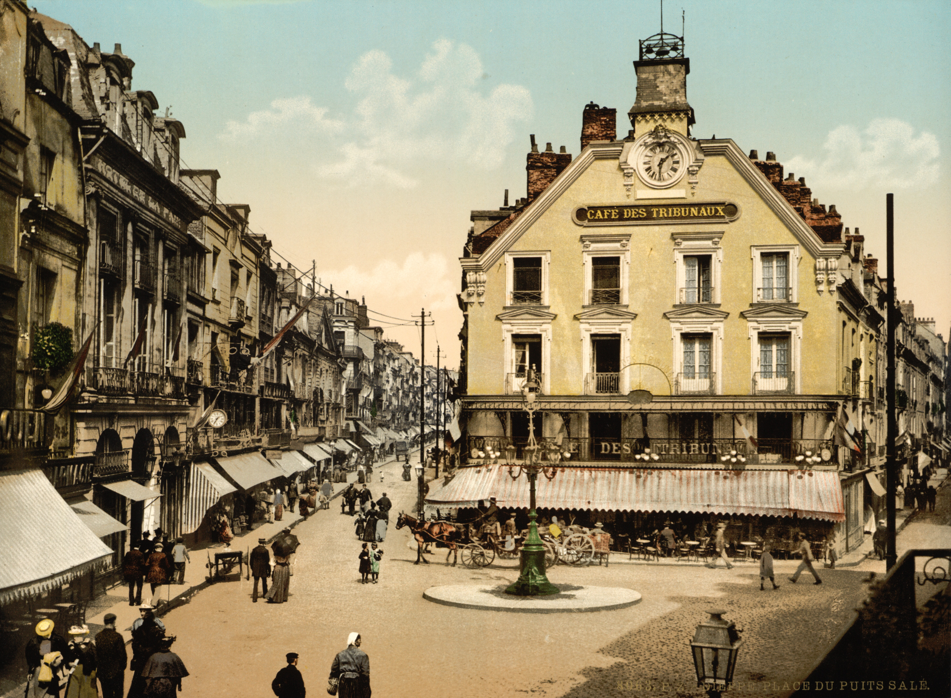 Photochrom print by Photoglob Zürich, between 1890 and 1900. From the Photochrom Prints Collection at the Library of Congress More photochroms from France | More photochrom prints [PD] This picture is in the public domain